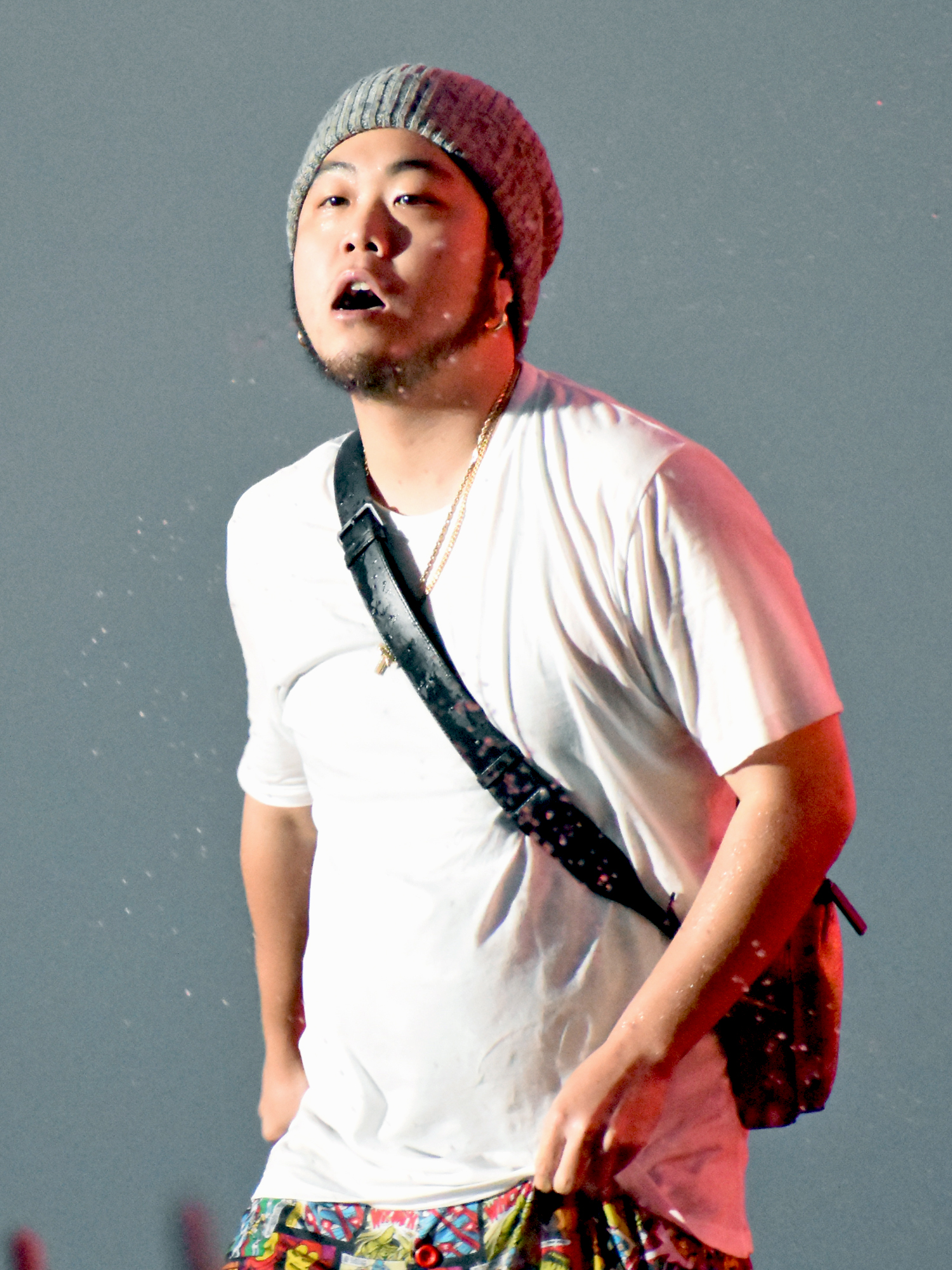 G2 at the 23rd Busan Sea Festival in Haeundae on August 1, 2018.